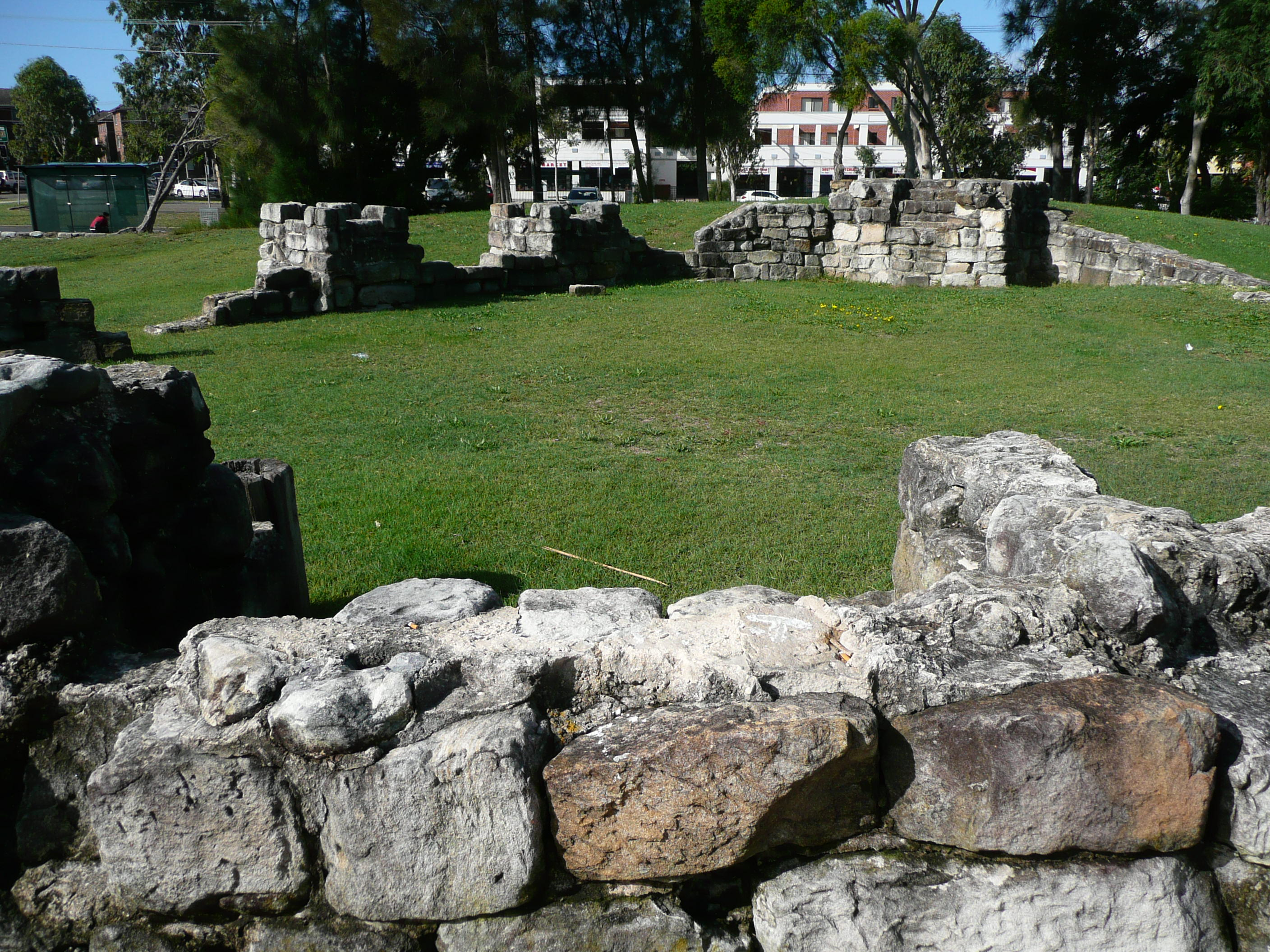 Remains of housing estate created for returned soldiers, Matraville, Sydney